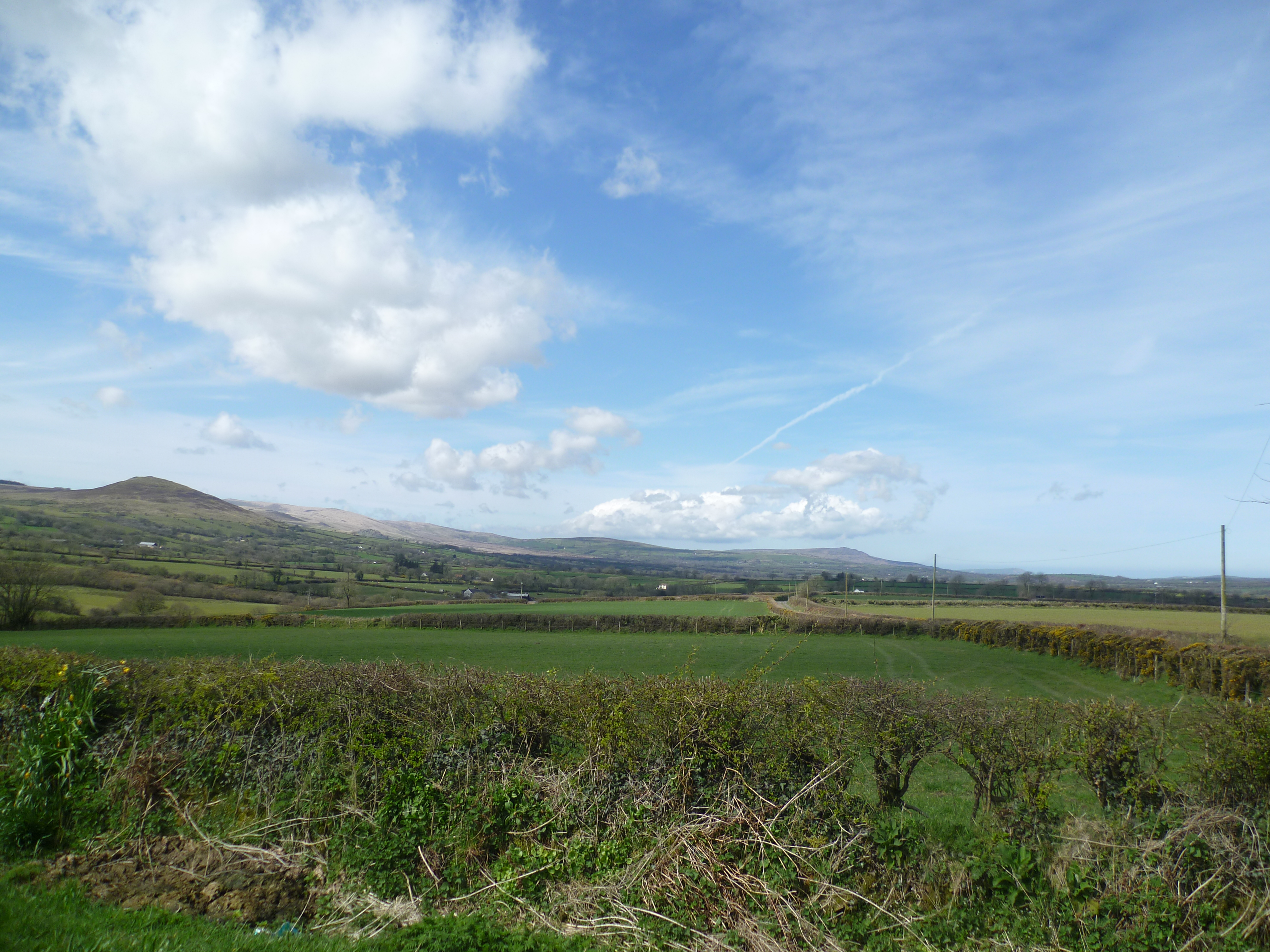 View of the western half of the Preseli Hills taken from 1/2 mile north of Crymych on A478. The peak on left is Foel Drigarn and Dinas Head is just visible on the right in the far distance, with the sea (St George's Channel) beyond.